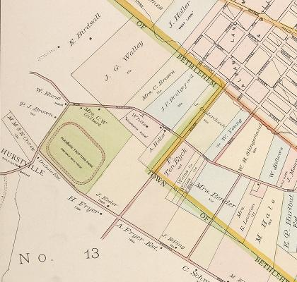 1891 map of Albany County, New York cropped to Hurstville, New York